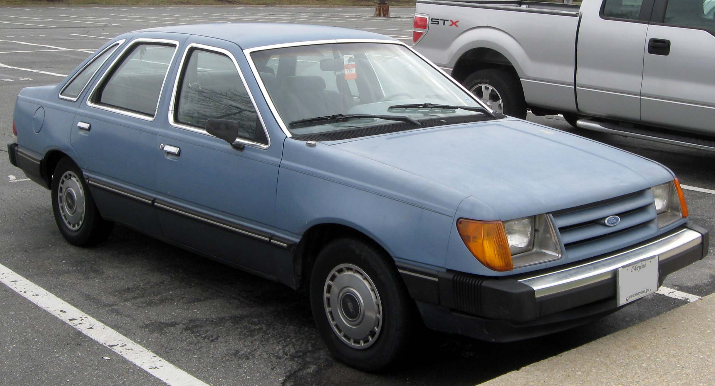 1984-1985 Ford Tempo photographed in College Park, Maryland, USA.